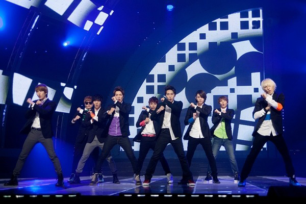 Super Junior performing Mr. Simple at M! Countdown